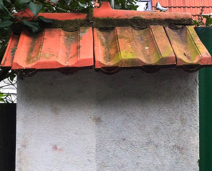 Left side is coated by self-cleaning coating. Result after 7 years.